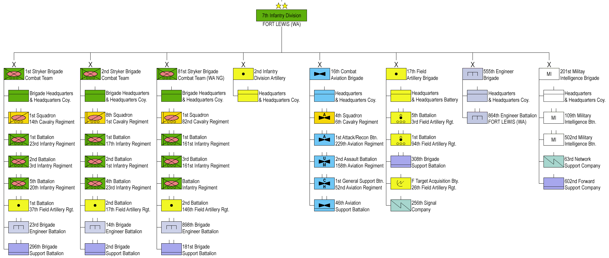 US Army 7th Infantry Division structure after the reorganization in May 2014